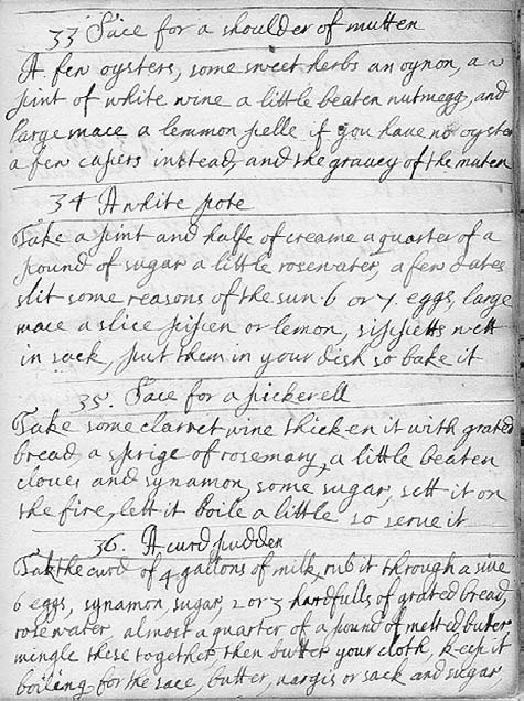 A page from the manuscript cookery book, dated 1660, England, Essex. Author: Frances Boothby, the wife or the daughter of Sir Thomas Boothby